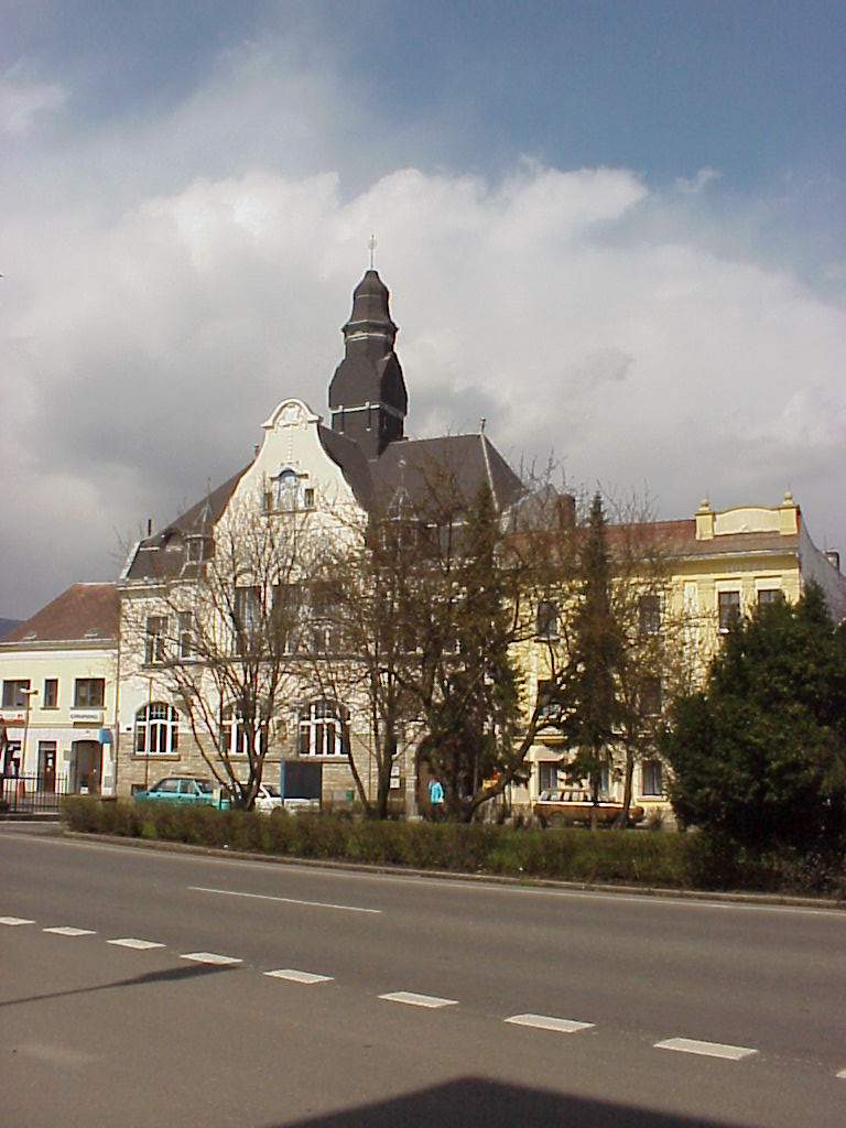 City council in Chabařovice